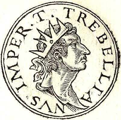 Trebellianus was a Roman usurper listed among the thirty tyrants in the Historia Augusta. Modern historians consider this figure a character invented by the author of Historia, whose traditional name was Trebonianus Pollius.